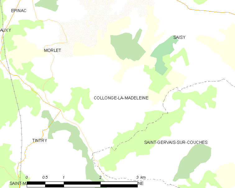 Map of French municipality